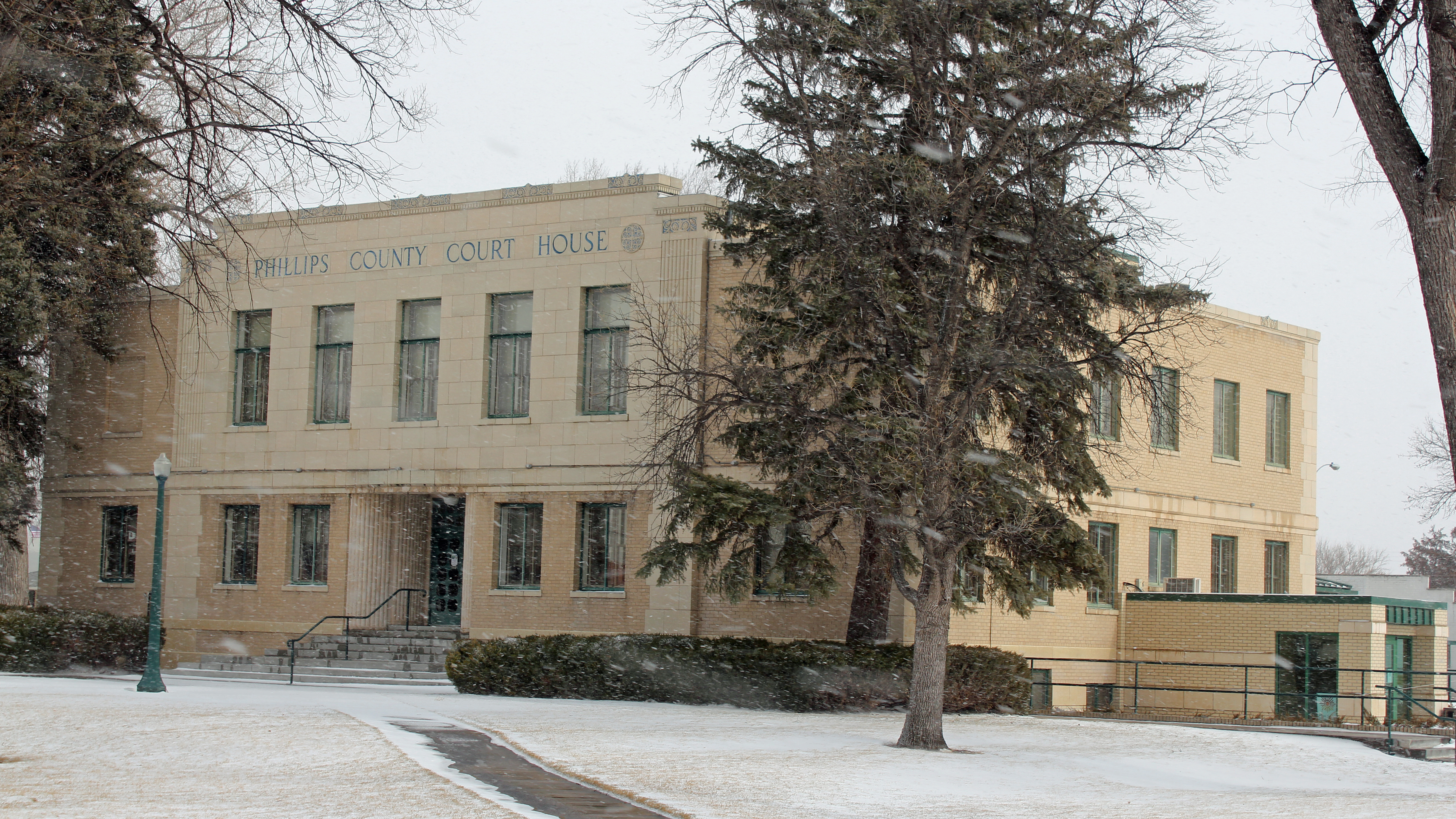 The Phillips County (Colorado) Courthouse, located at 221 Interocean Avenue in Holyoke, Colorado. The property is listed on the National Register of Historic Places.